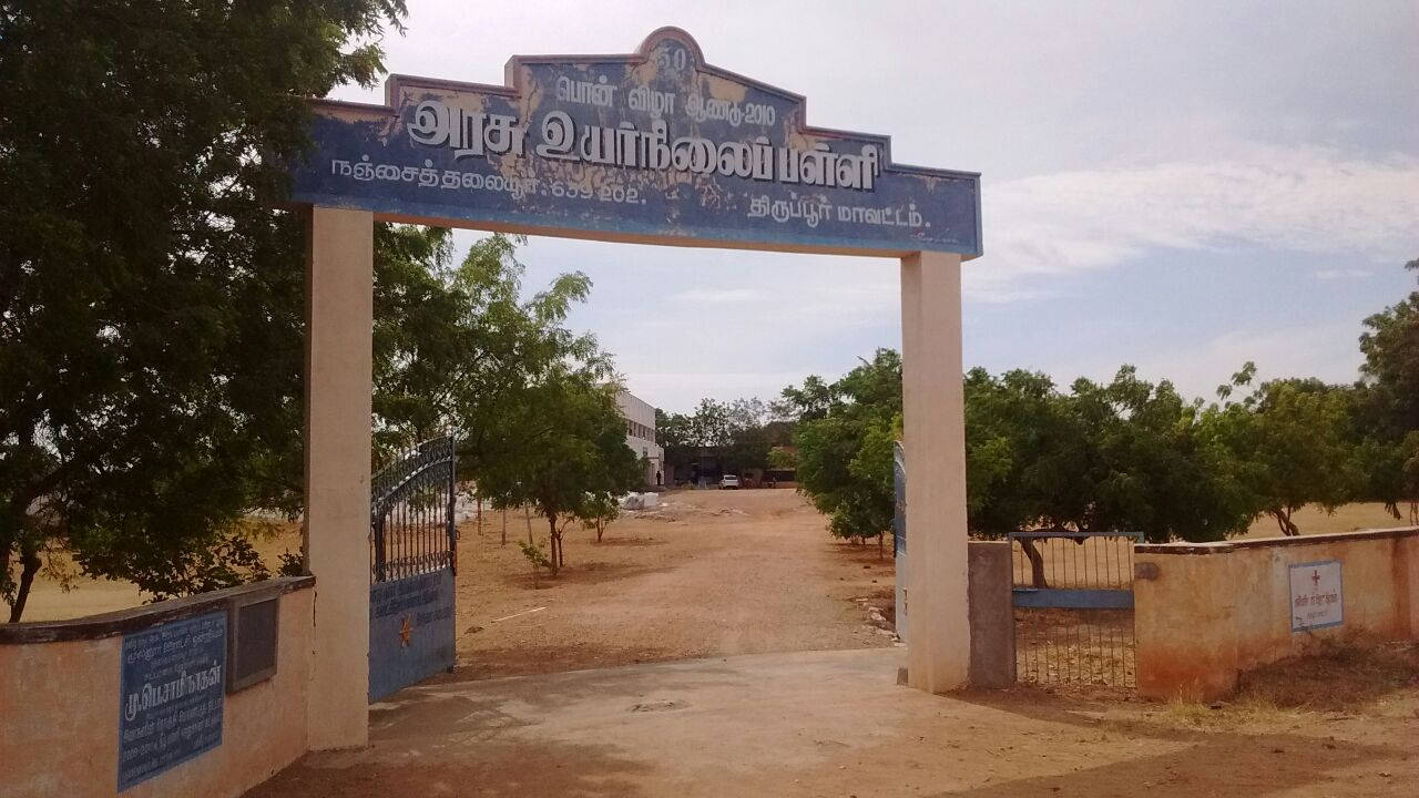 Govt high school nanjaithalaiyur in triuppur district